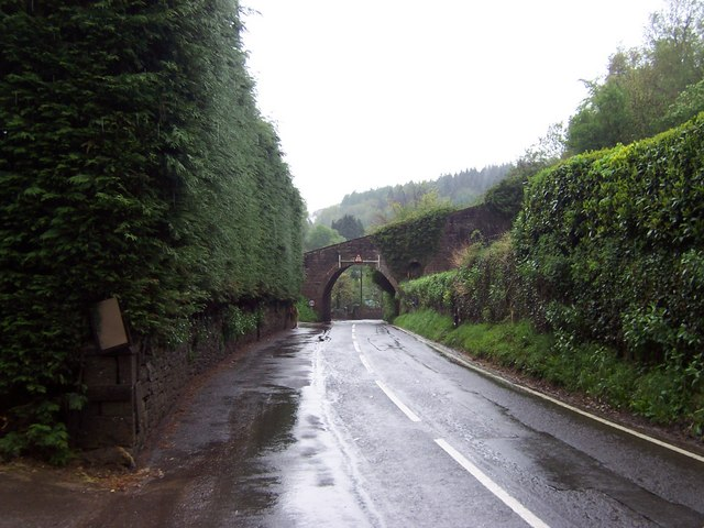 Incline Bridge, Redbrook. Looking down the B4231 from Newland towards the bridge that carried an incline colliery railway over the road - long disused